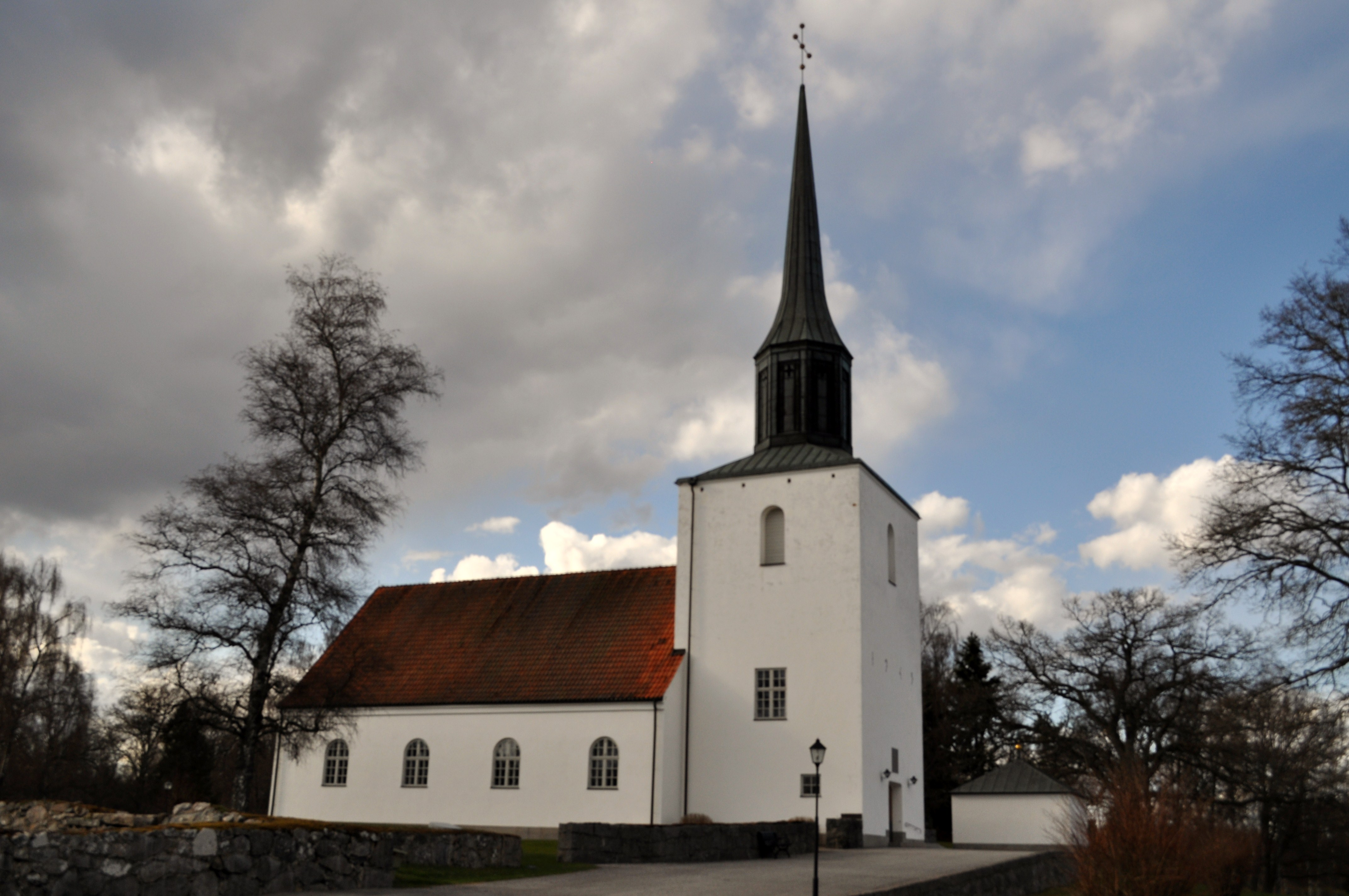 Sillhövda church - kyrka